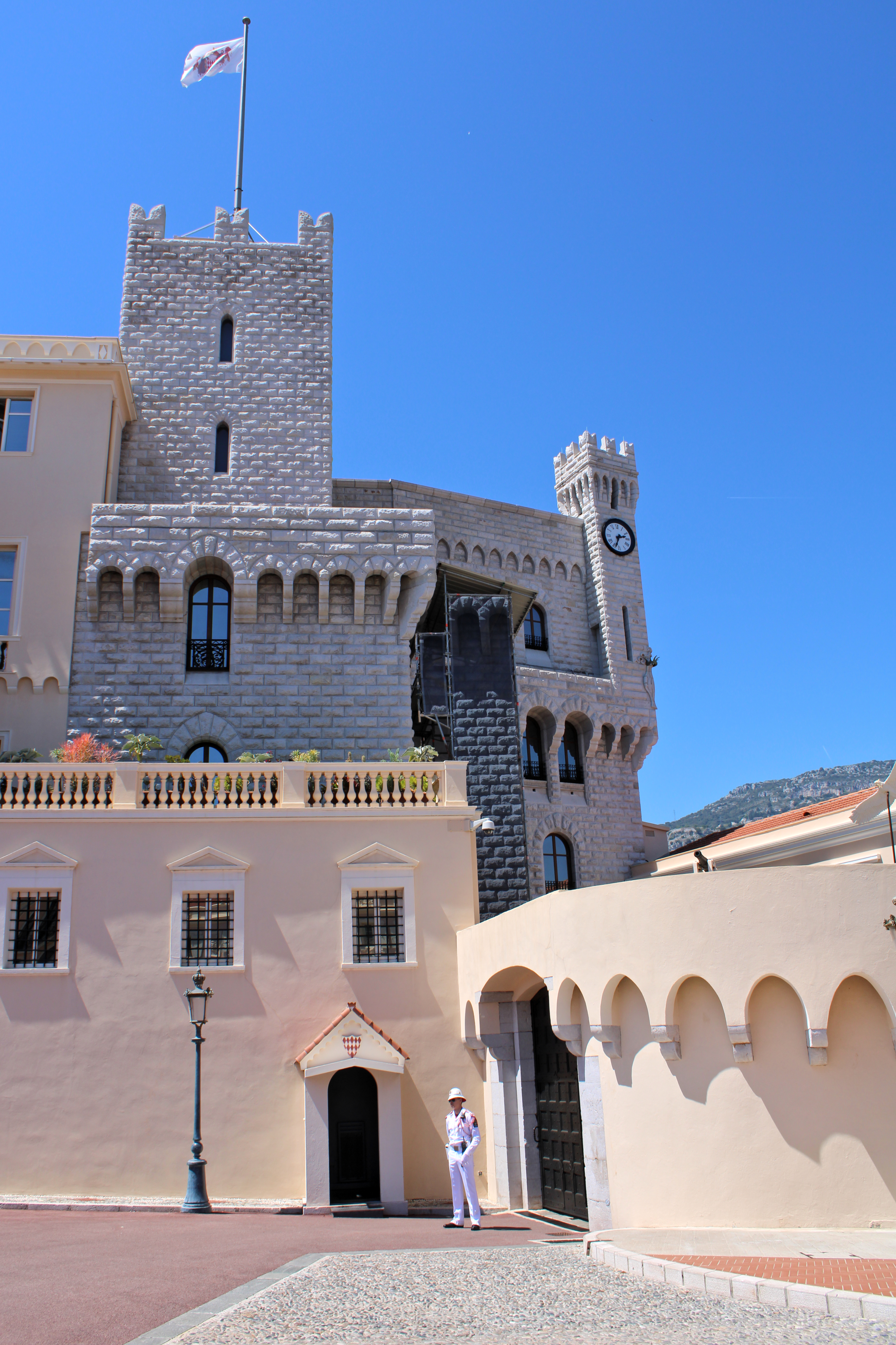 Prince's Palace of Monaco